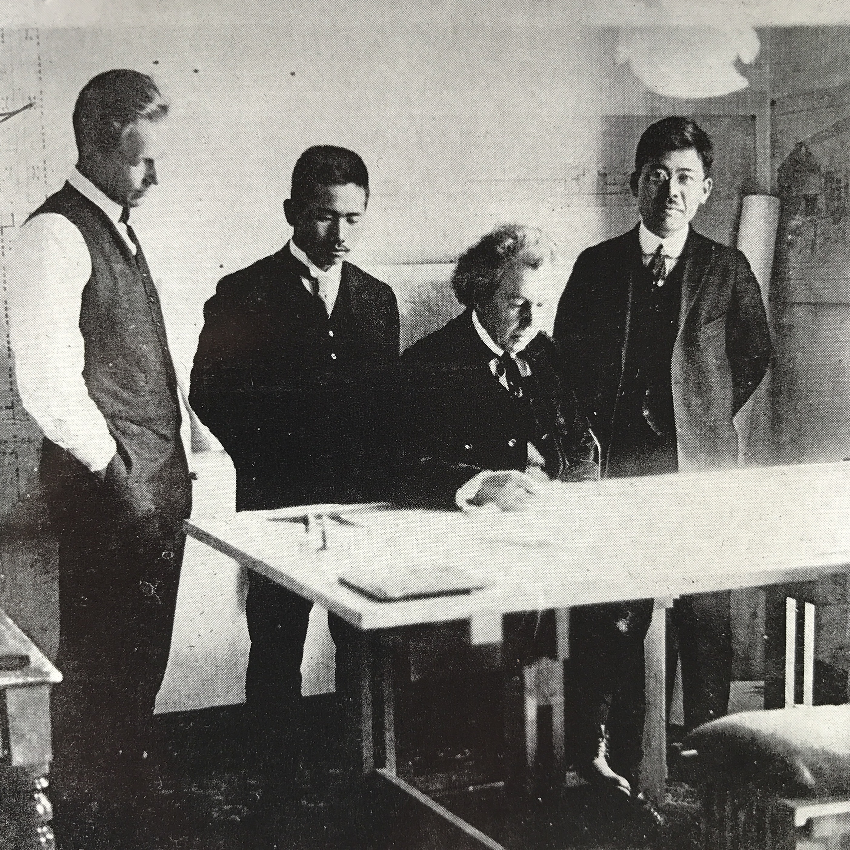 From left, John Lloyd Wright, Arata Endō, Frank Lloyd Wright and Aisaku Hayashi.